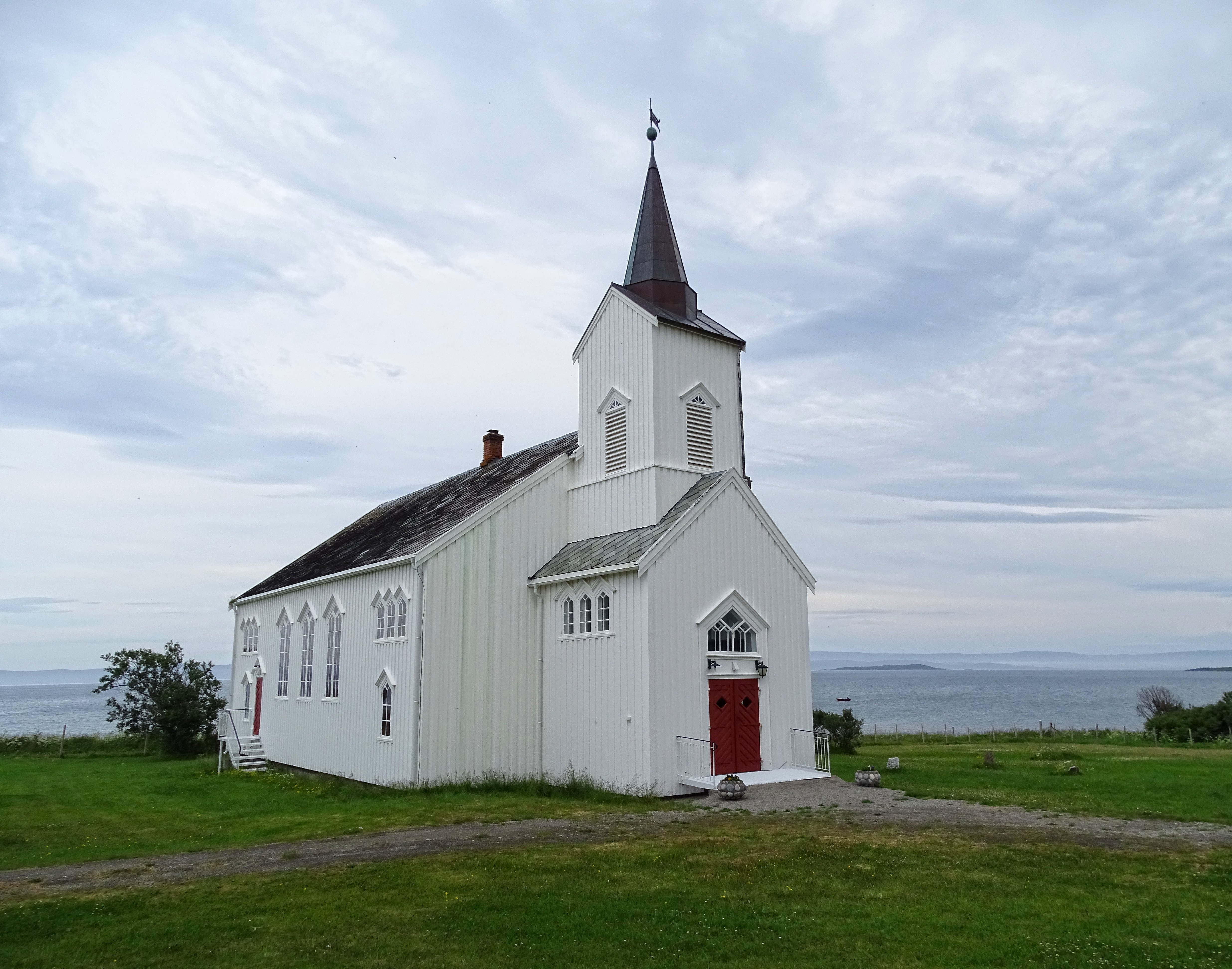 Kistrand Church photographed from the west towards east.